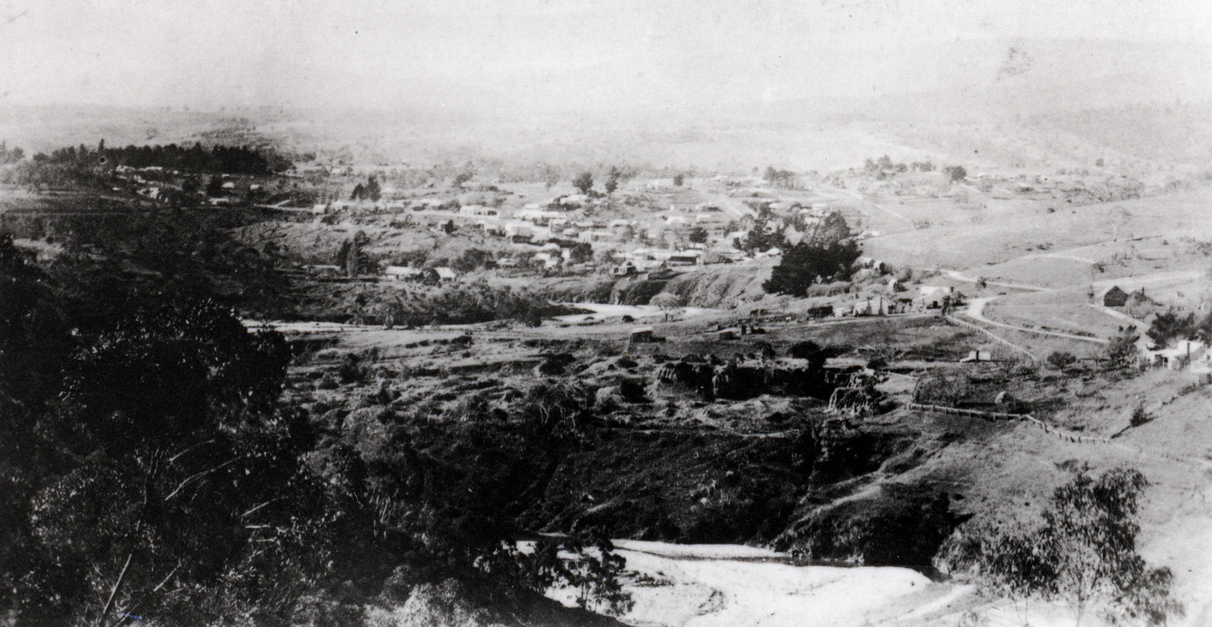 Panoramic view of Omeo c1890s taken from the highest point of what is now Ah Fong's loop walk at the Oriental Claims in Omeo, Victoria, Australia. Note that this view today is almost completely obscured by vegetation; also of note is the degree of silting of Livingstone Creek, which was significant in finally having the mining operations shut down.